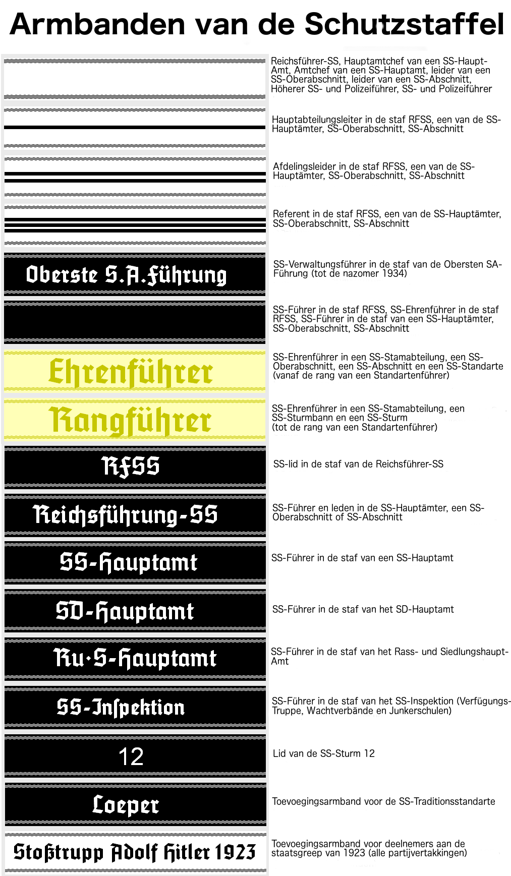 Cuff-titles of the Schutzstaffel